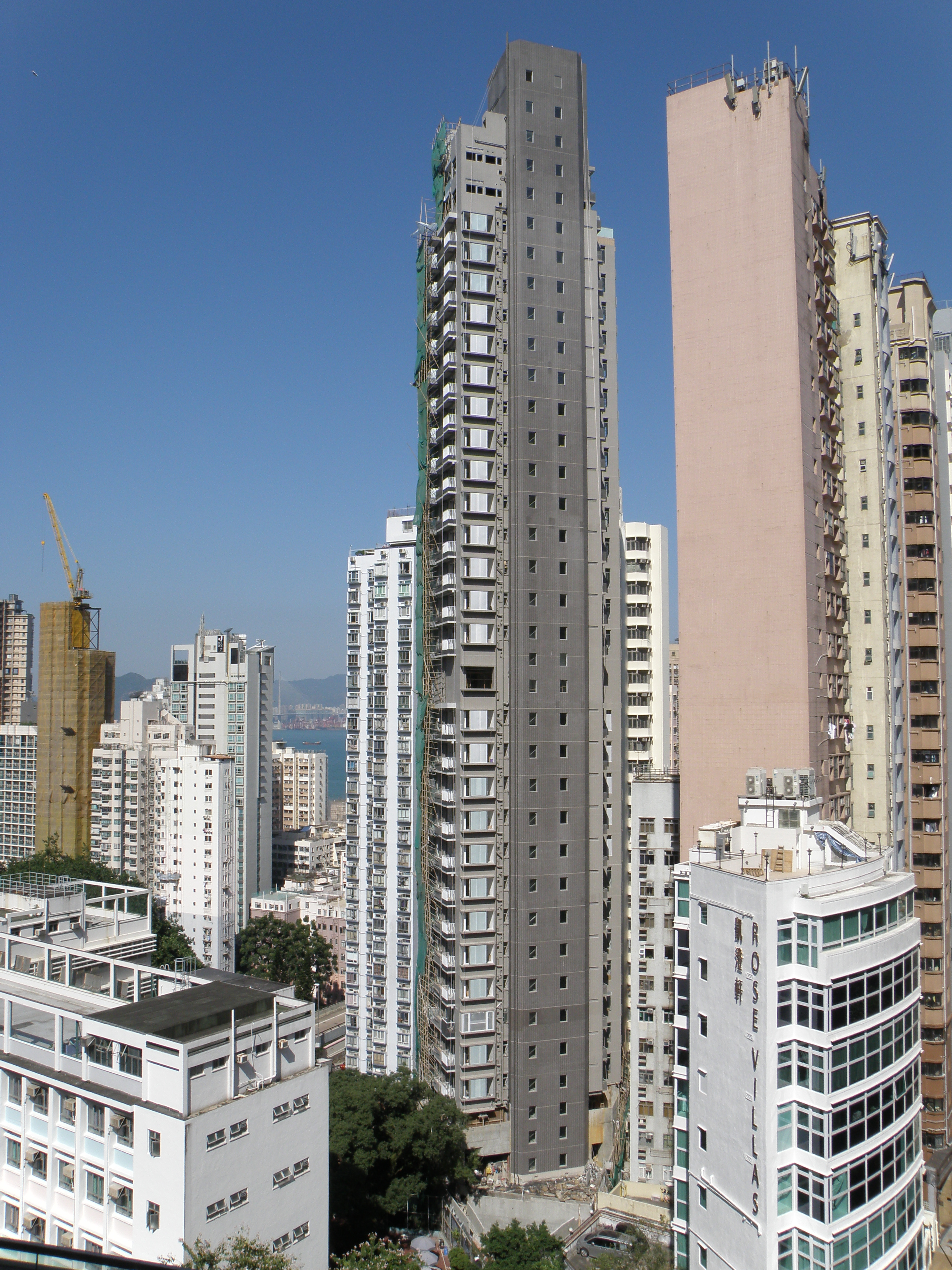 Eivissa Crest in Shek Tong Tsui, Hong Kong.